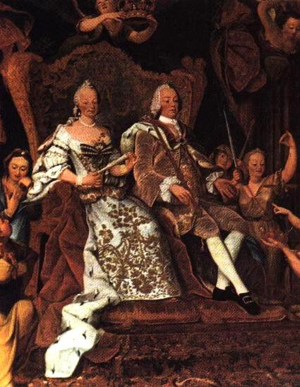 José I of Portugal with his wife